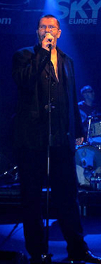 Richard Müller performing at KOKO club in London in 2007